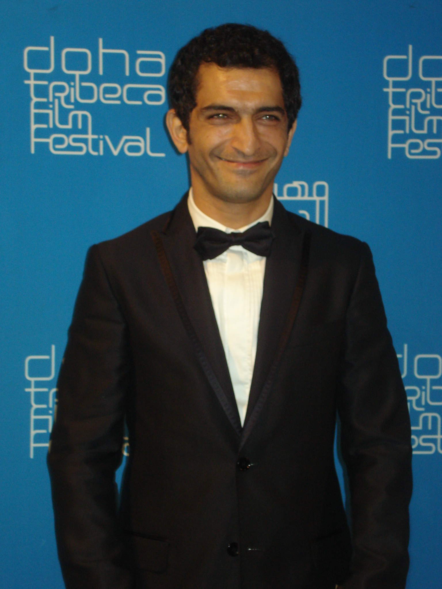 Amr Waked in Qatar 2009.